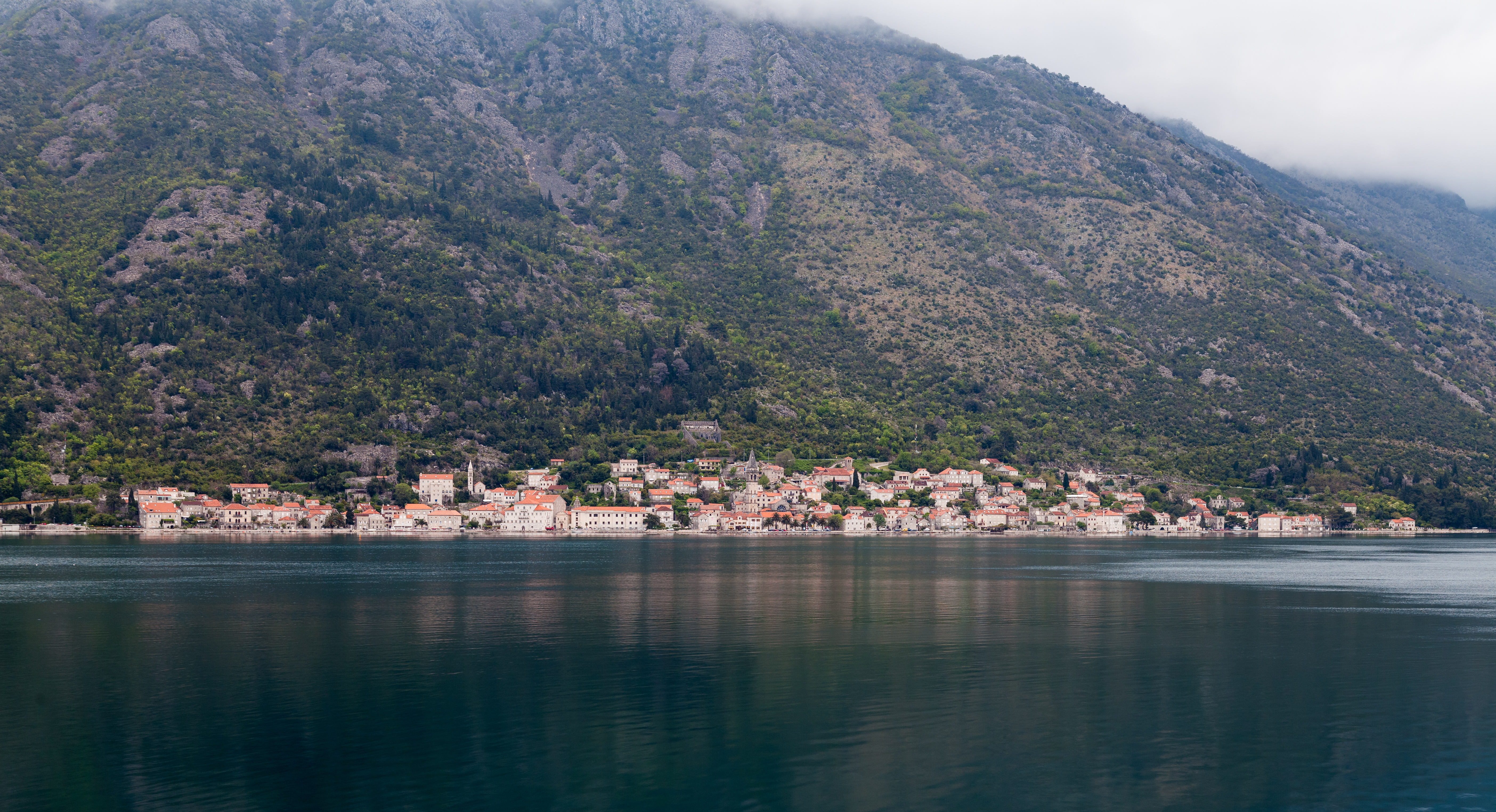 View of Perast, Bay of Kotor, Montenegro